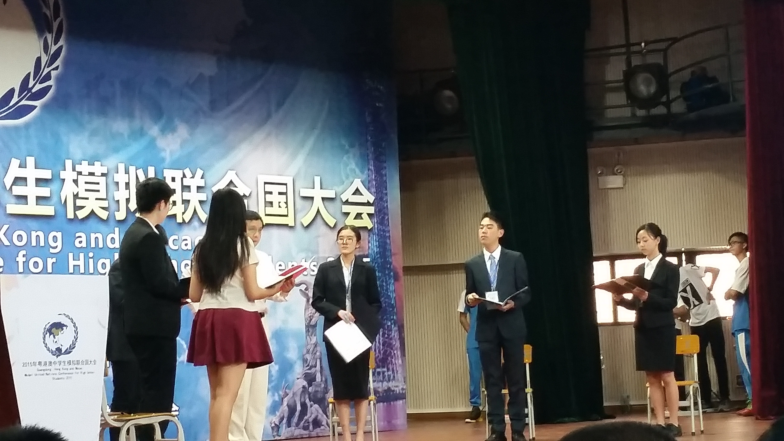 One of the MUN competition held by Foshan No.1 Middle School